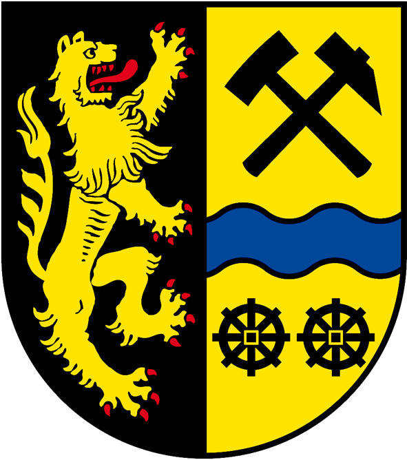 Coat of arms of Heinzenbach